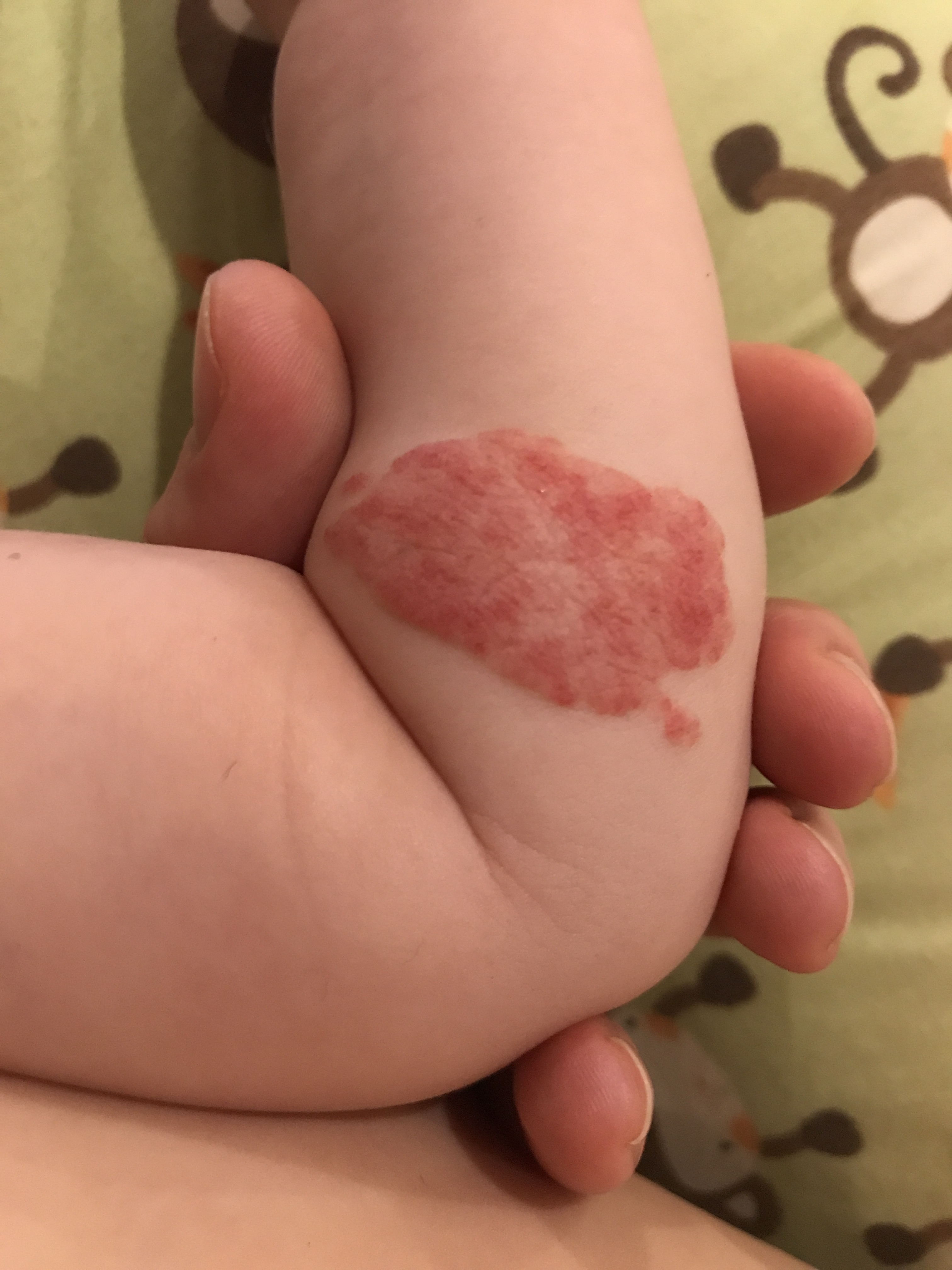 Infantile hemangioma, involuting